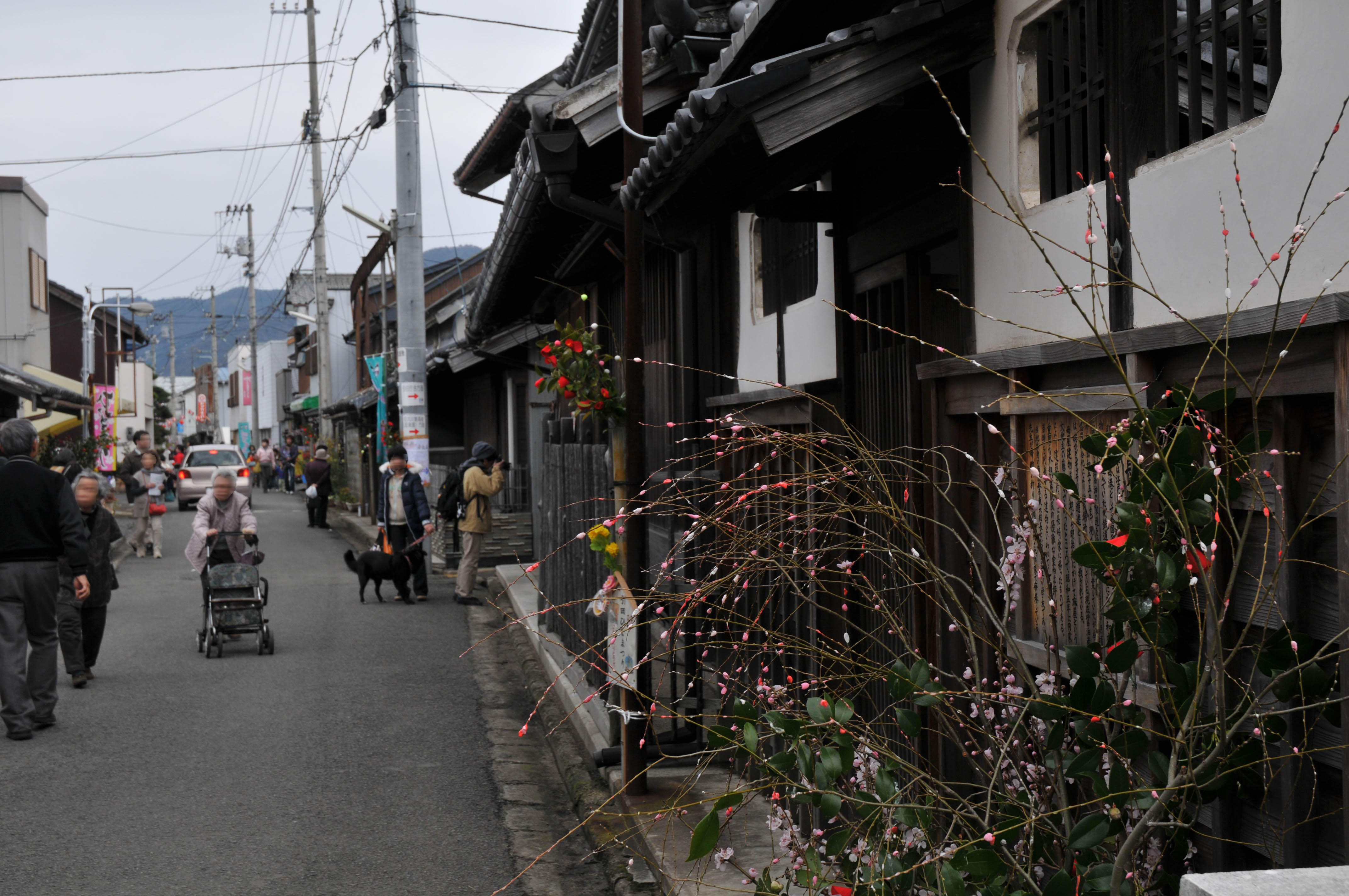 Hiketa street and "Mochi-bana"